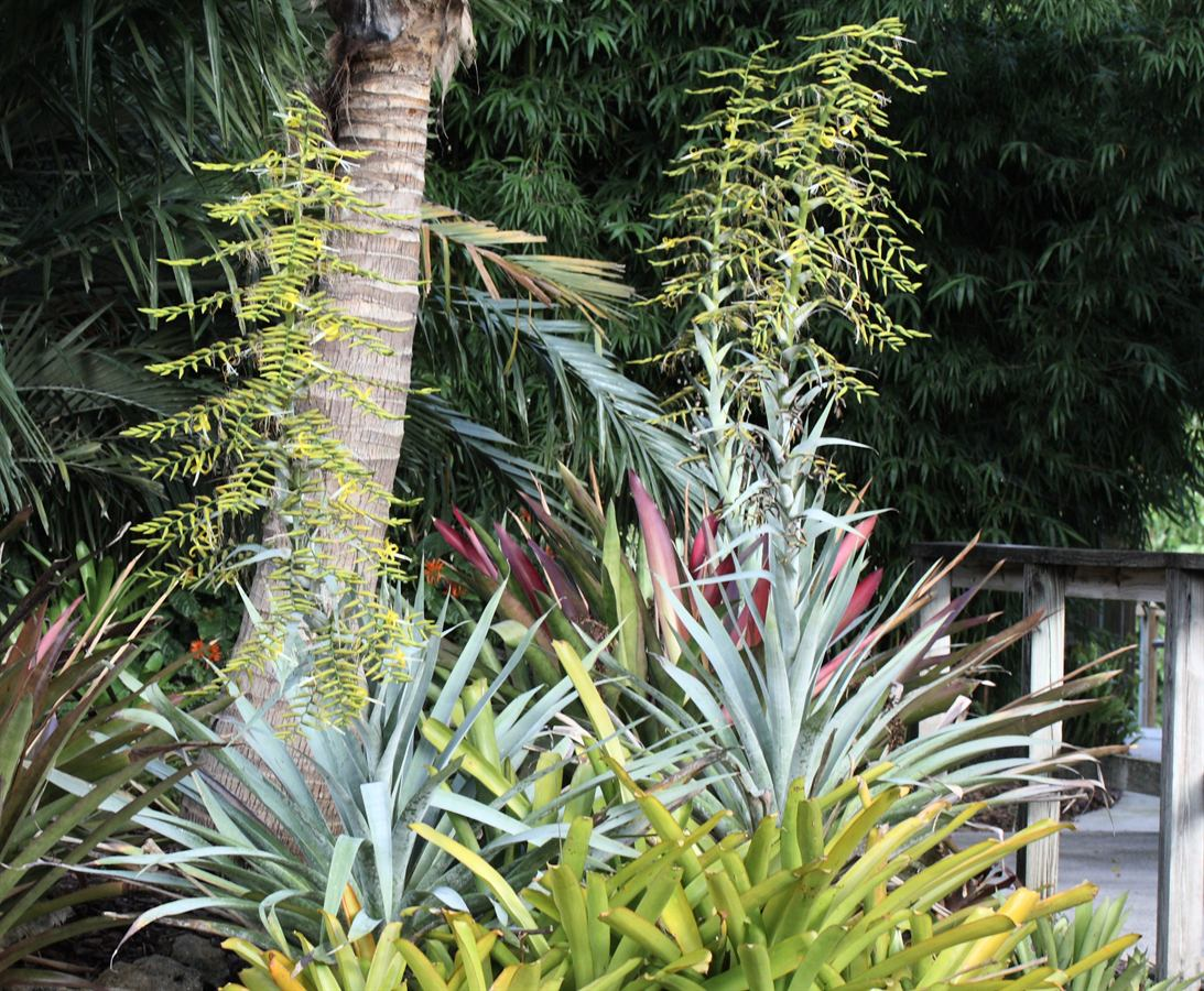 Alcantarea odorata, silver form, in bloom, Mounts Botanical, Florida